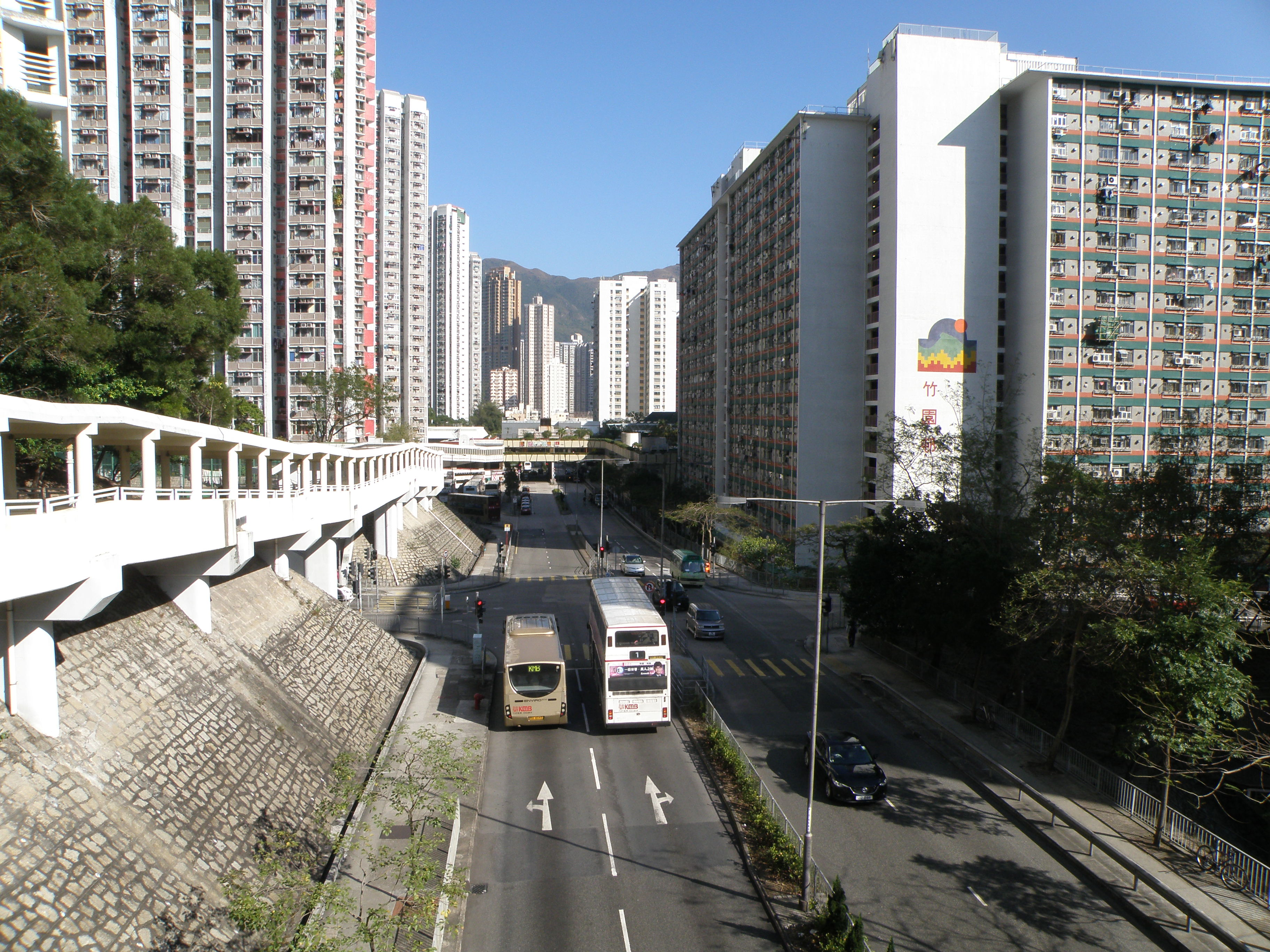 Chuk Yuen Road in Wong Tai Sin, Hong Kong.